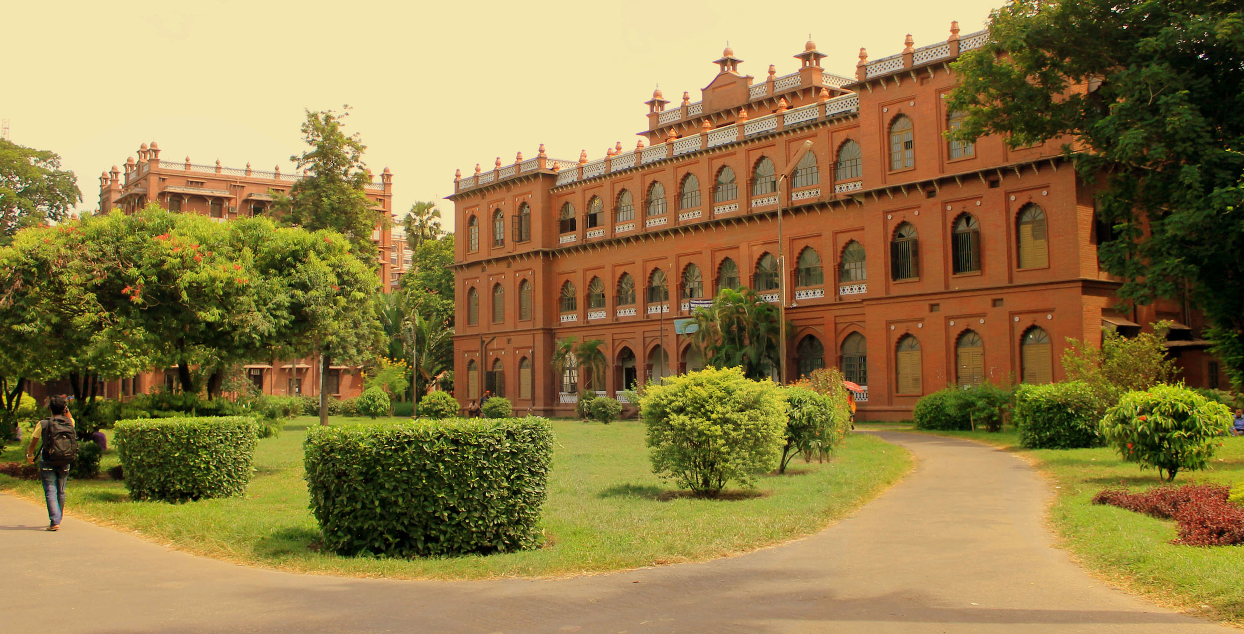 beautiful